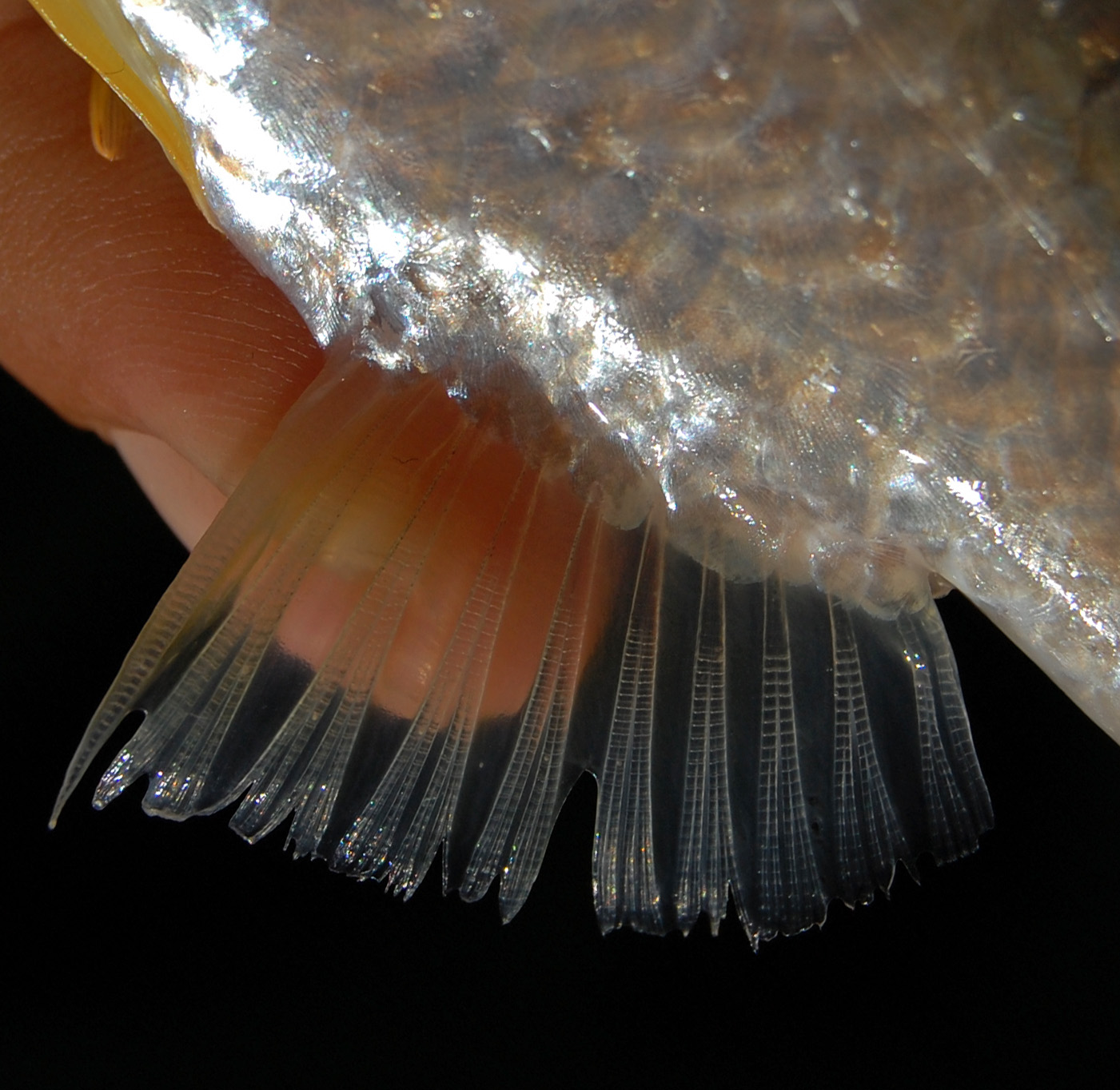 Barbonymus gonionotus, anal fin. From Cisadane River, Situgede, Bogor, West Java, Indonesia errata: Misidentified, it should be Mystacoleucus marginatus